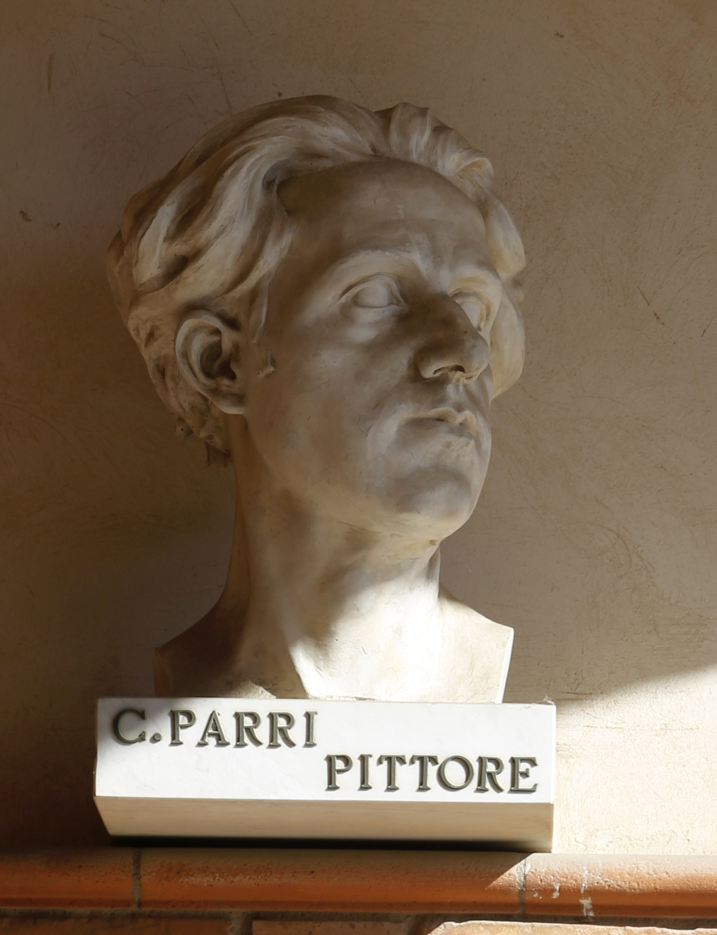 Carlo Parri, painter